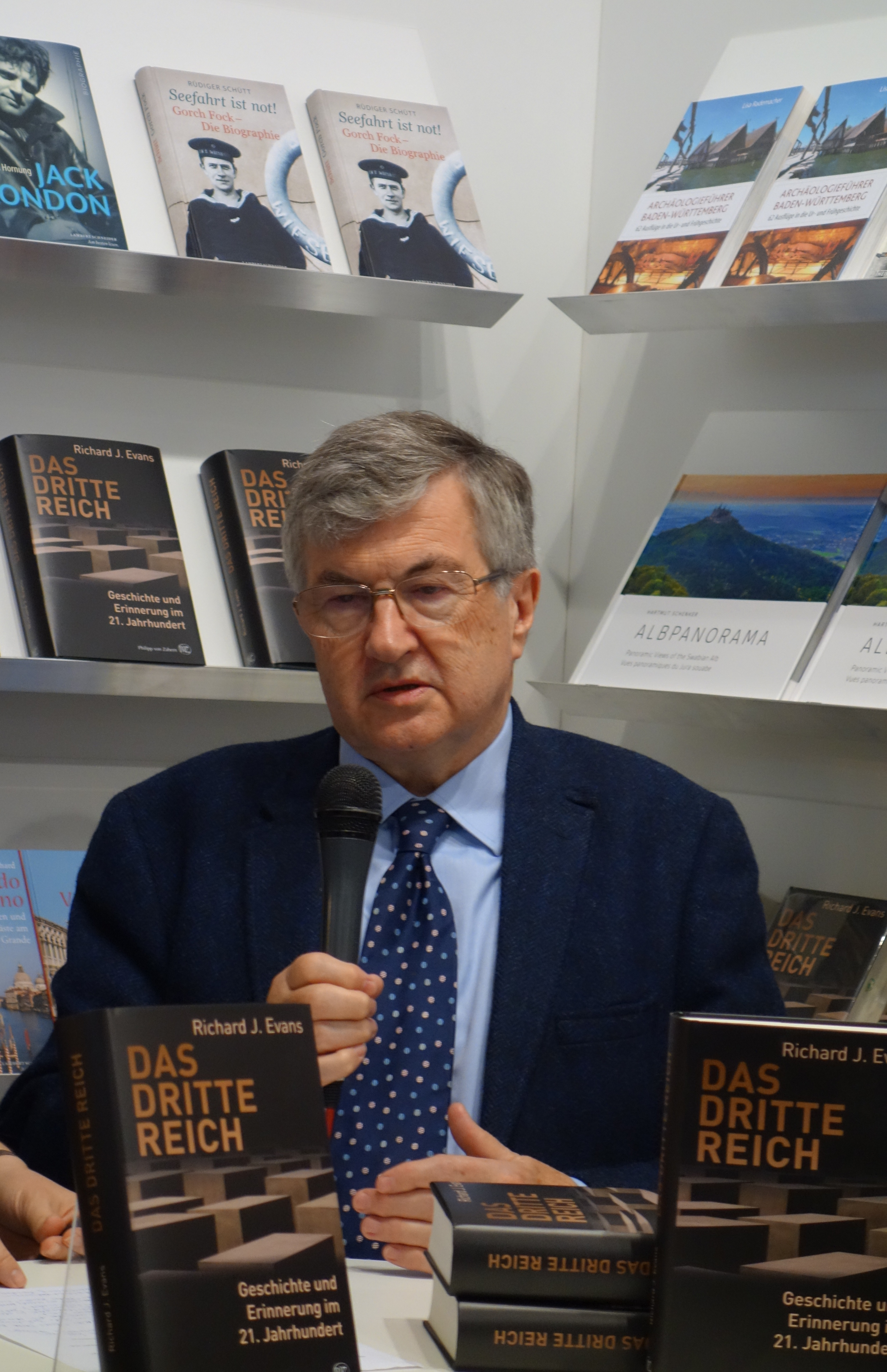 Richard J. Evans at the Frankfurt Book Fair at the presentation of his book The Third Reich.